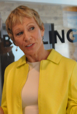 Barbara Corcoran at a LinkedIn event